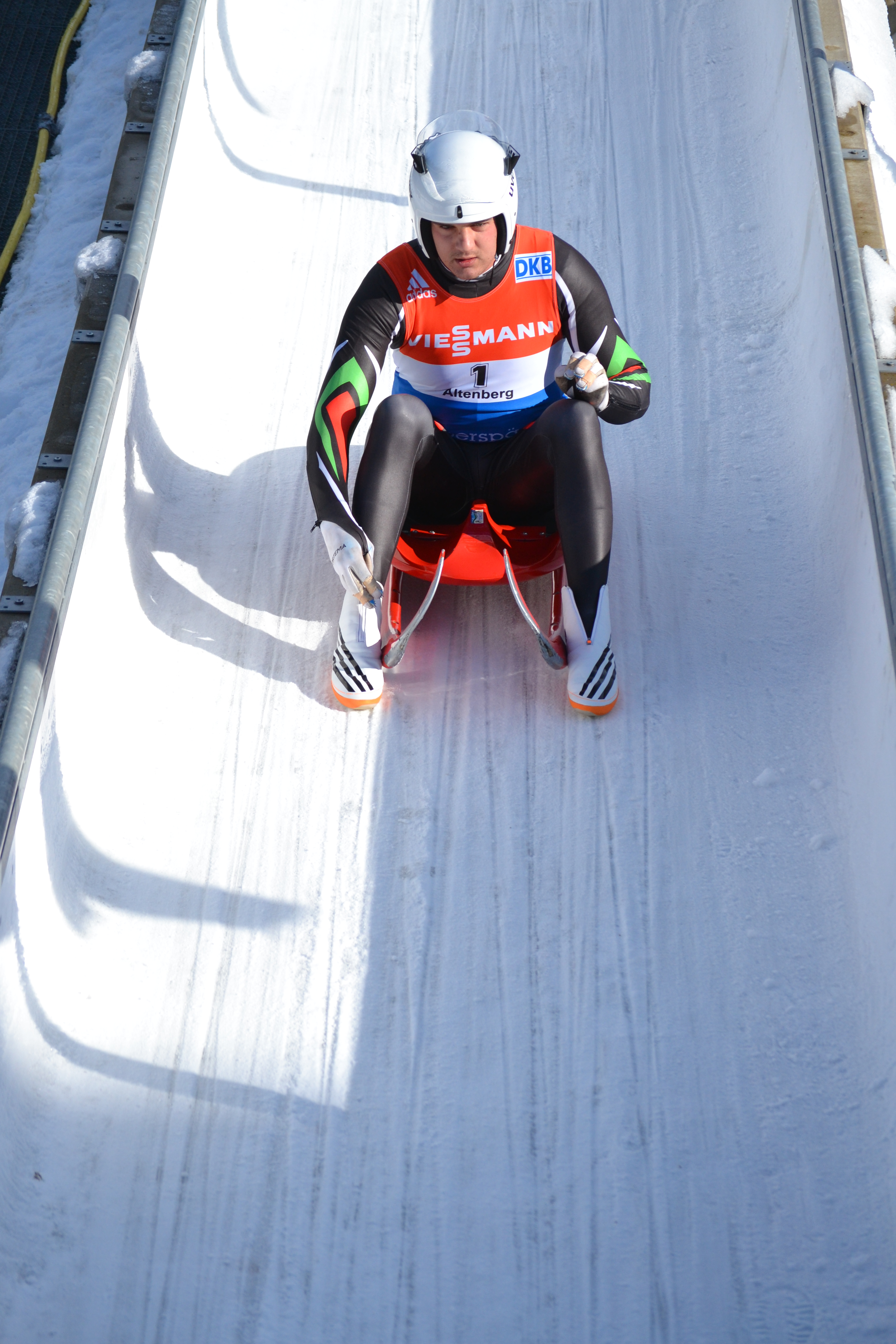 Luge world cup race season 2014/15 in Altenberg/Germany, 19th to 22nd Februar 2015. Day 3: Mens race.